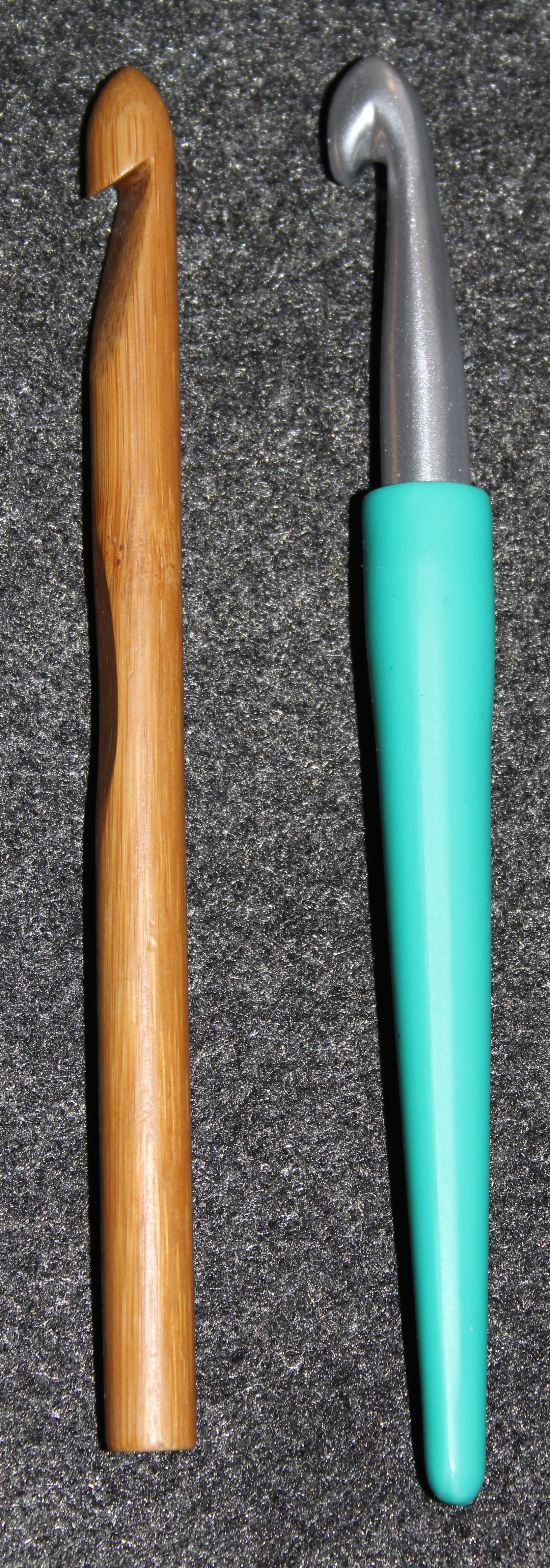 This photograph illustrates the difference between inline and tapered crochet hooks.